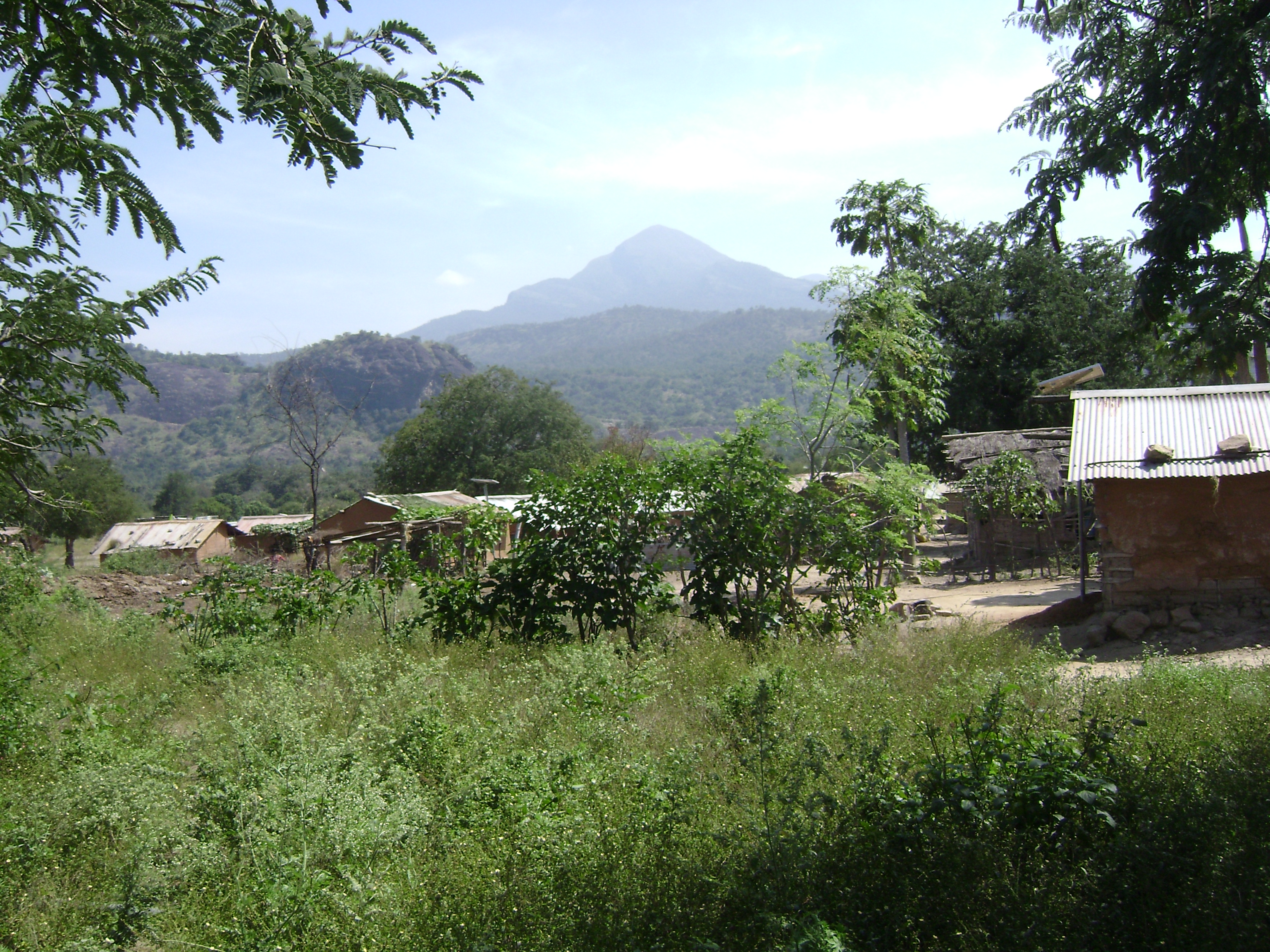 Talinji Vilage & Vellari Malai Peak in Manjampatti Valley